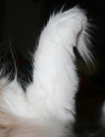 "snowshoes" Norwegian Forest Cat. The hair on the paws are very helpful in the rich snowy scandinavian winters.